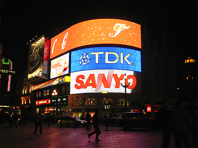 Neon Glow: Piccadilly Circus. The famous neon lights at Piccadilly.